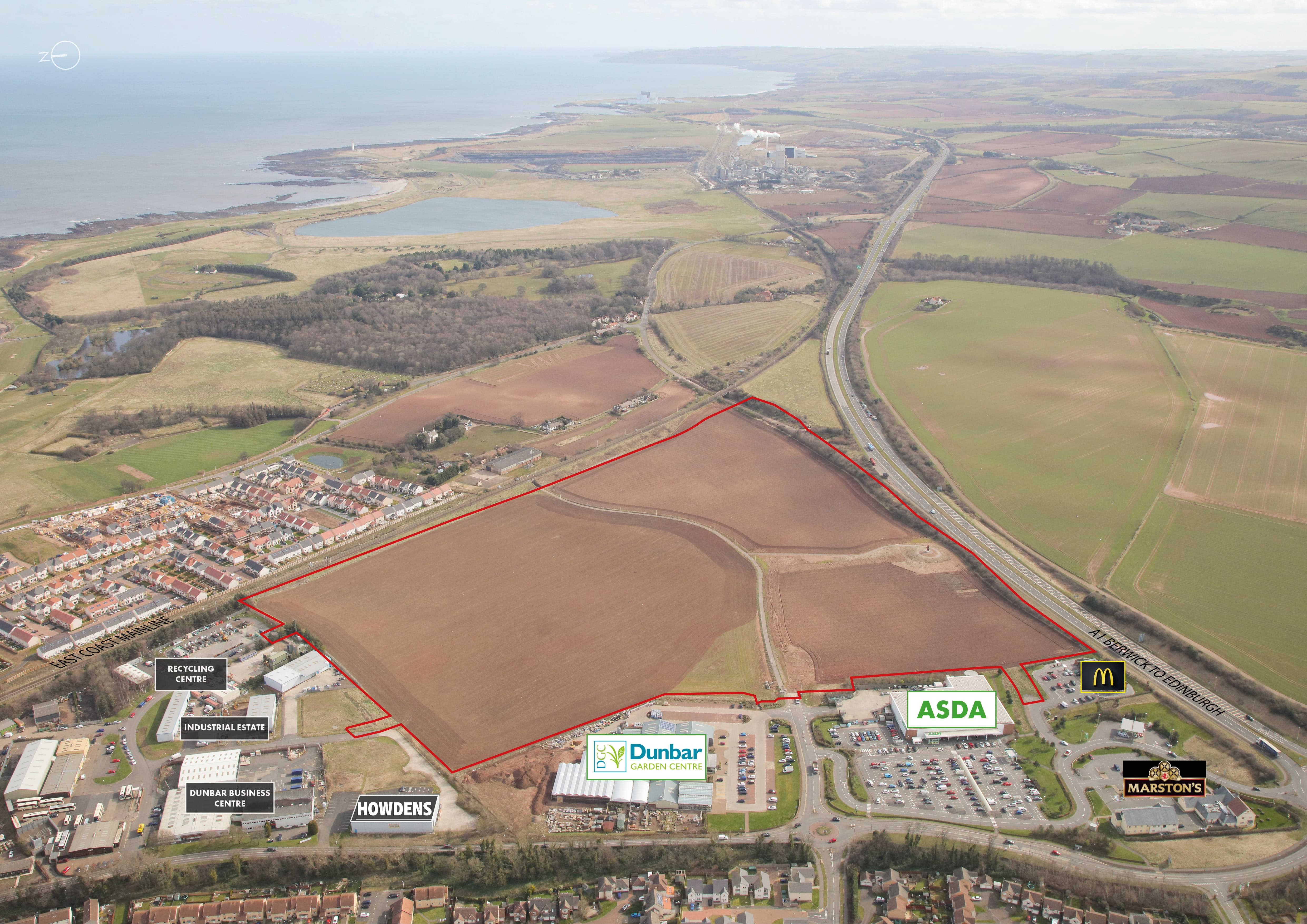 Aerial view of DunBear Park - Proposals (CGI)